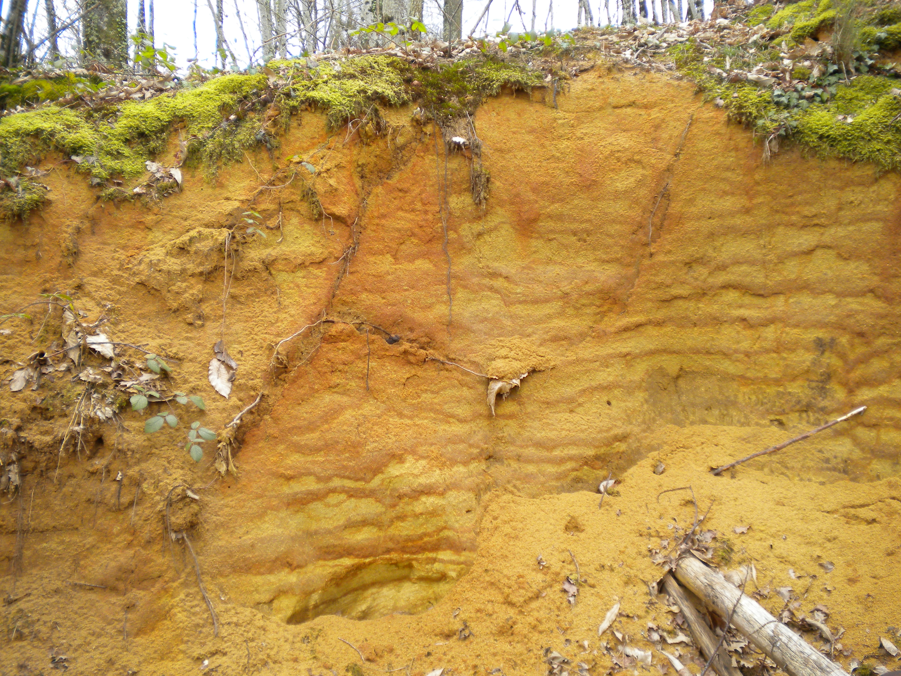 Tertiary colluvial sands with rhythmic layering completely masking the underlying Middle Jurassic limestones. Saint-Martial-de-Valette, Dordogne, France. The quartz-rich sands (mapped as Formation AC on the geological map) were redeposited during the last ice age. They are derived from gneisses and granodiorites farther to the Northeast.